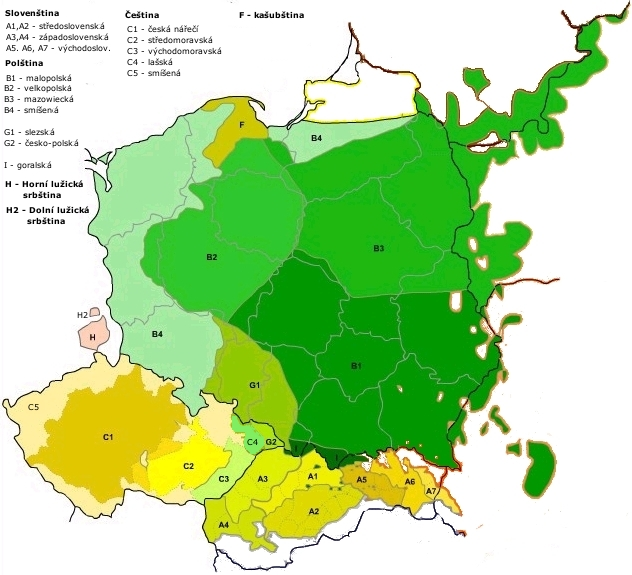 West slavic languages Key: Slovak: A1, A2 Central Slovak dialects A3, A4 Western Slovak dialects A5, A6, A7 Eastern Slovak dialects